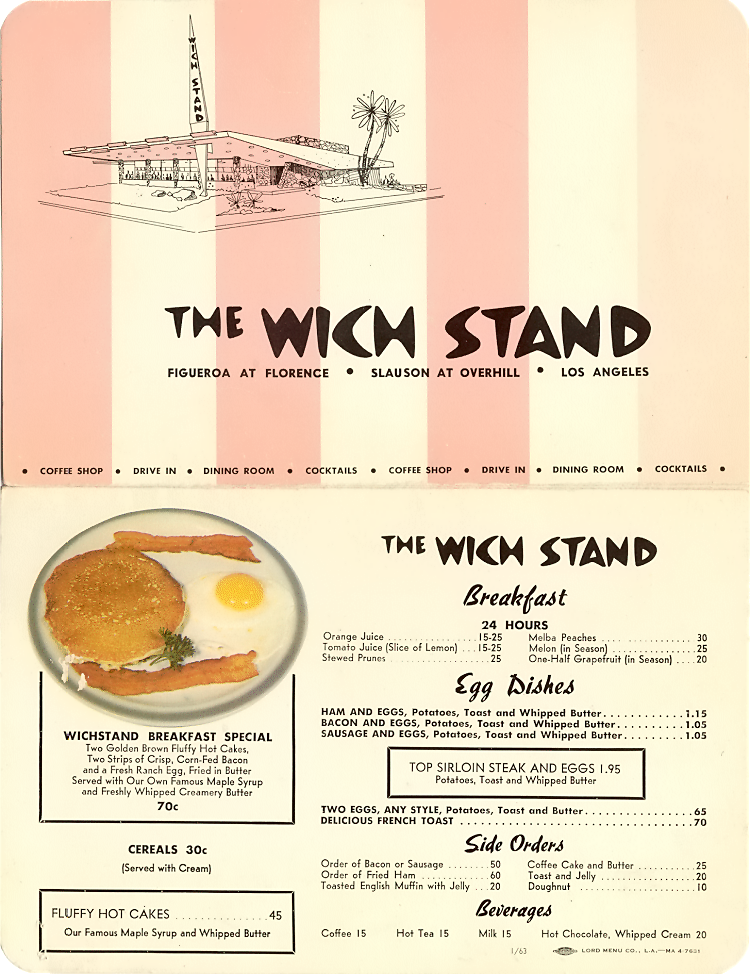 Outside of (front and back) of early menu from Which Stand coffee shop in Los Angeles